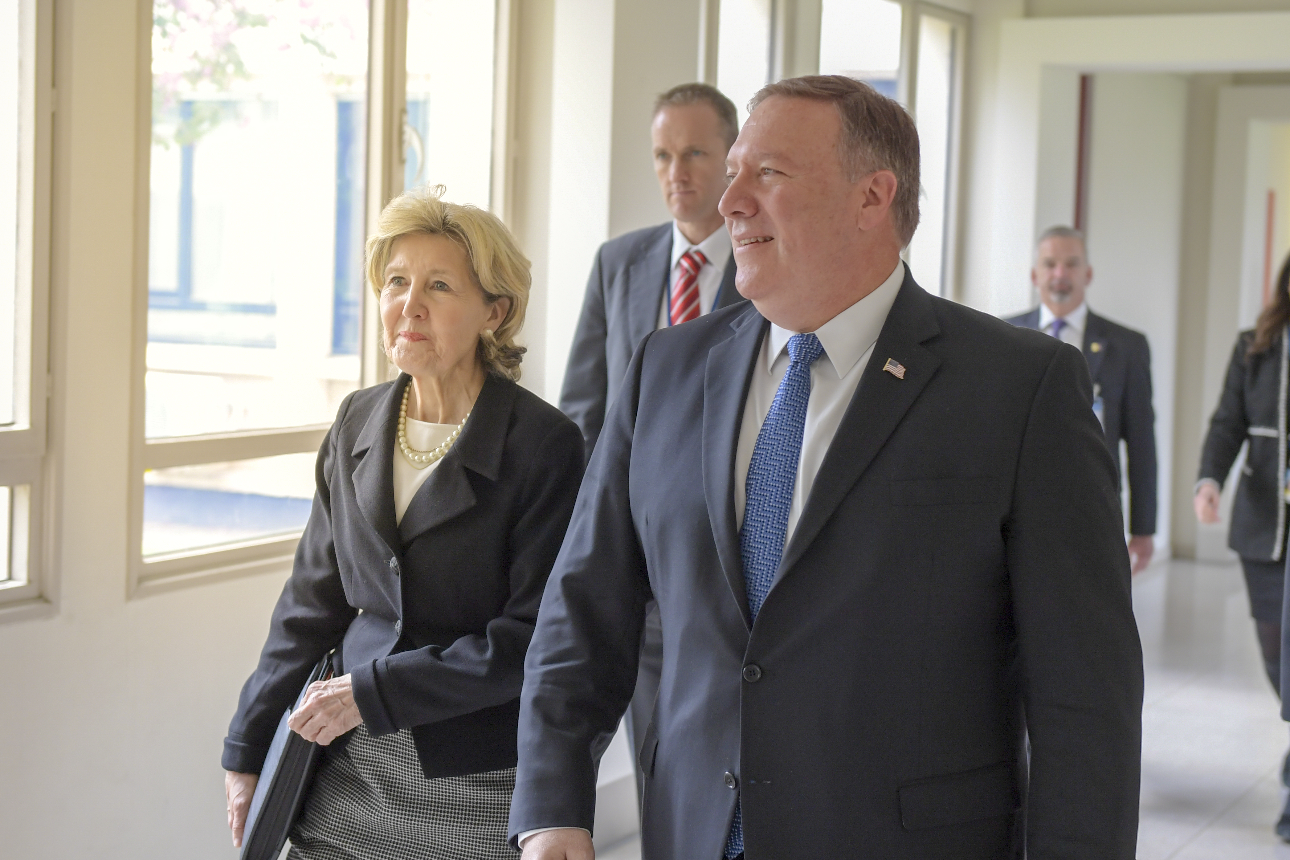 Secretary of State Mike Pompeo chats with U.S. Permanent Representative to NATO Ambassador Kay Bailey at NATO Headquarters, during a NATO Foreign Minister's Meeting in Brussels, Belgium, April 27, 2018. [State Department photo/ Public Domain]